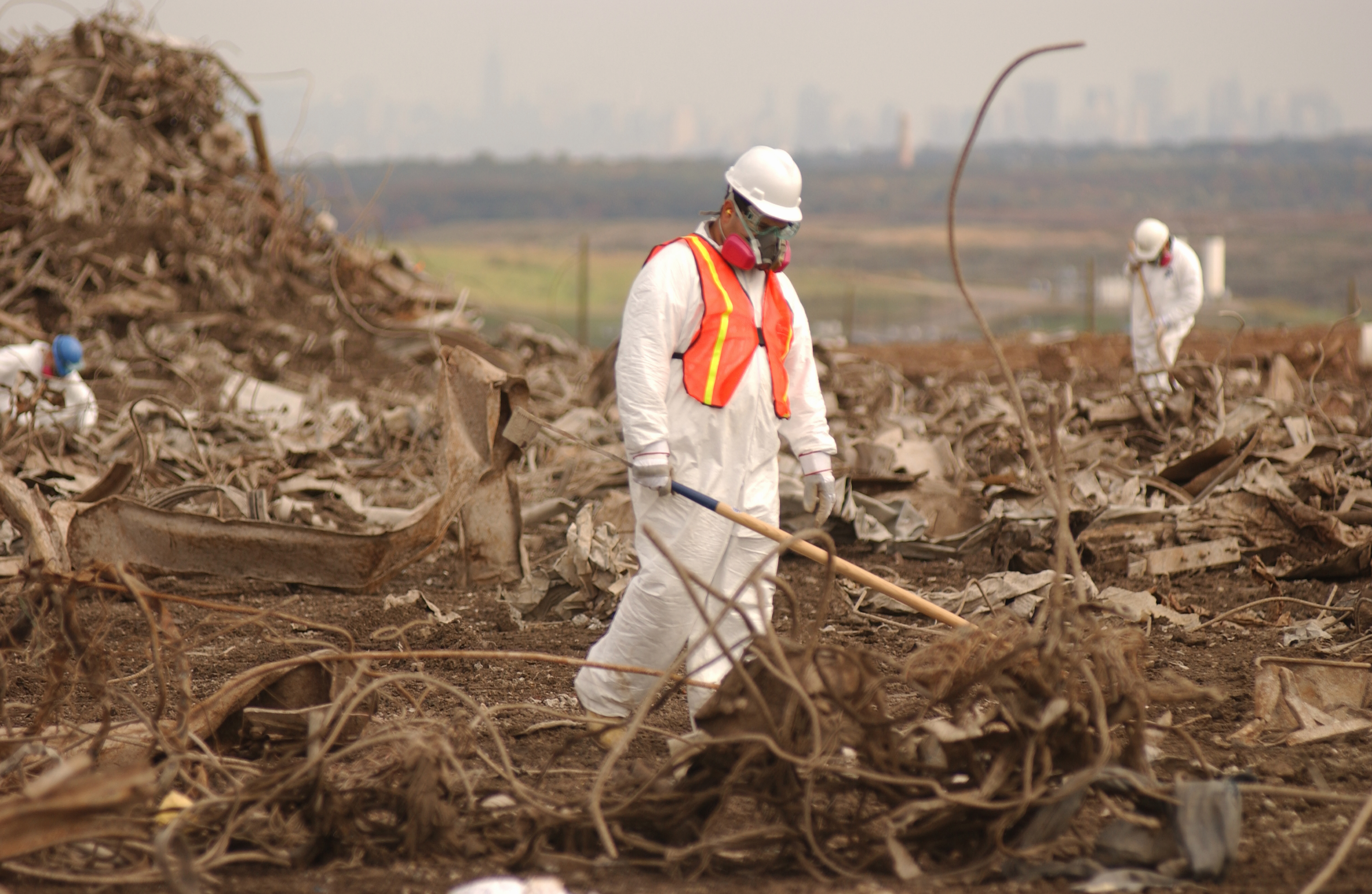 New York, NY, October 16, 2001 -- Debris removal from Ground Zero to the Staten Island landfill continues as a 24 hours a day operation. Photo by Andrea Booher/ FEMA News Photo